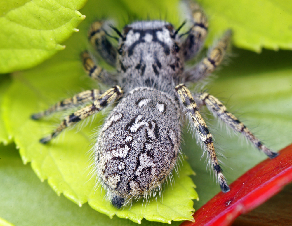 A view of the abdomen of an adult female Phidippus mystaceus jumping spider.